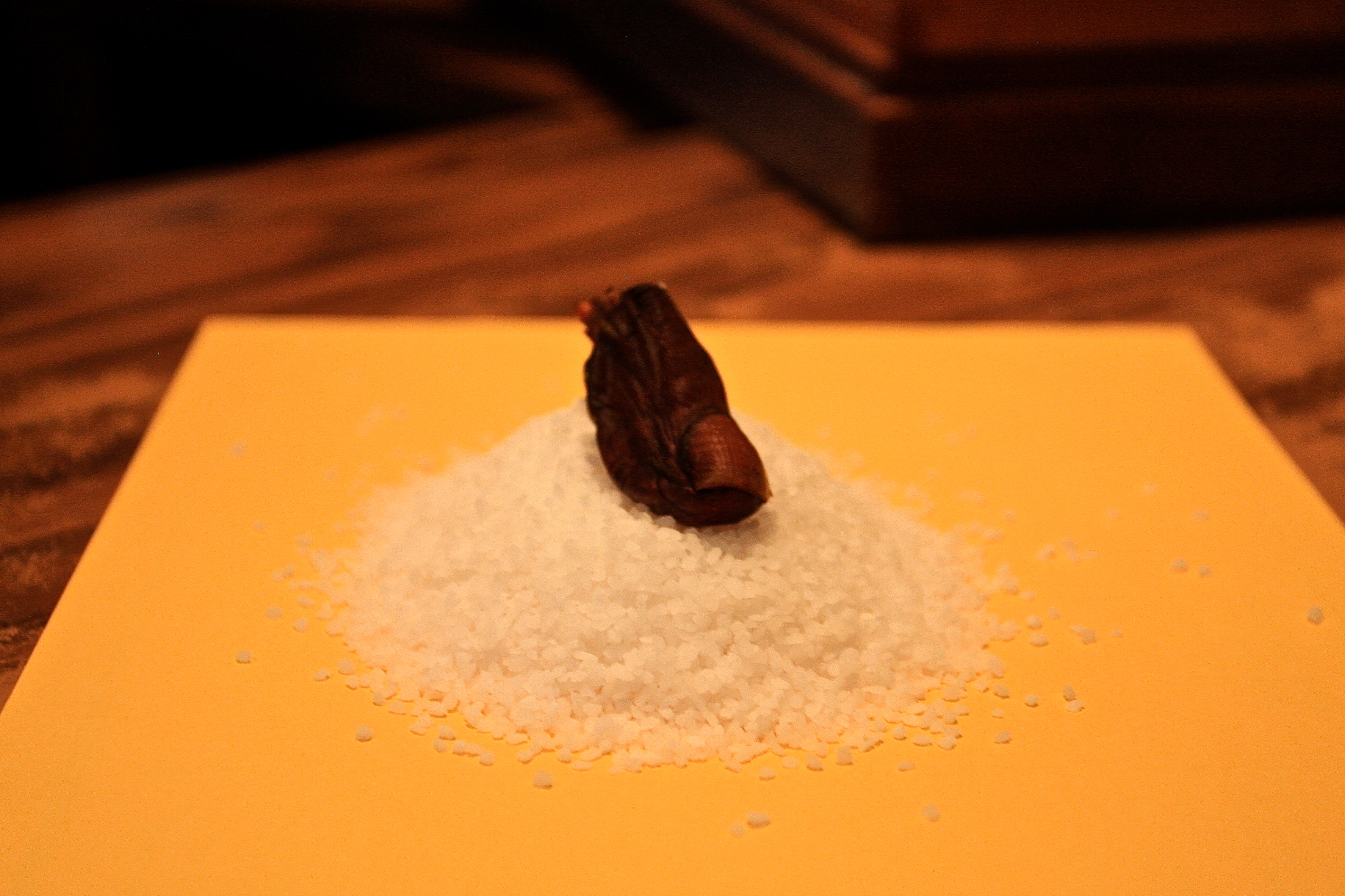 Sourtoe Cocktail Preparation - Downtown Hotel, Dawson City, Yukon Territory